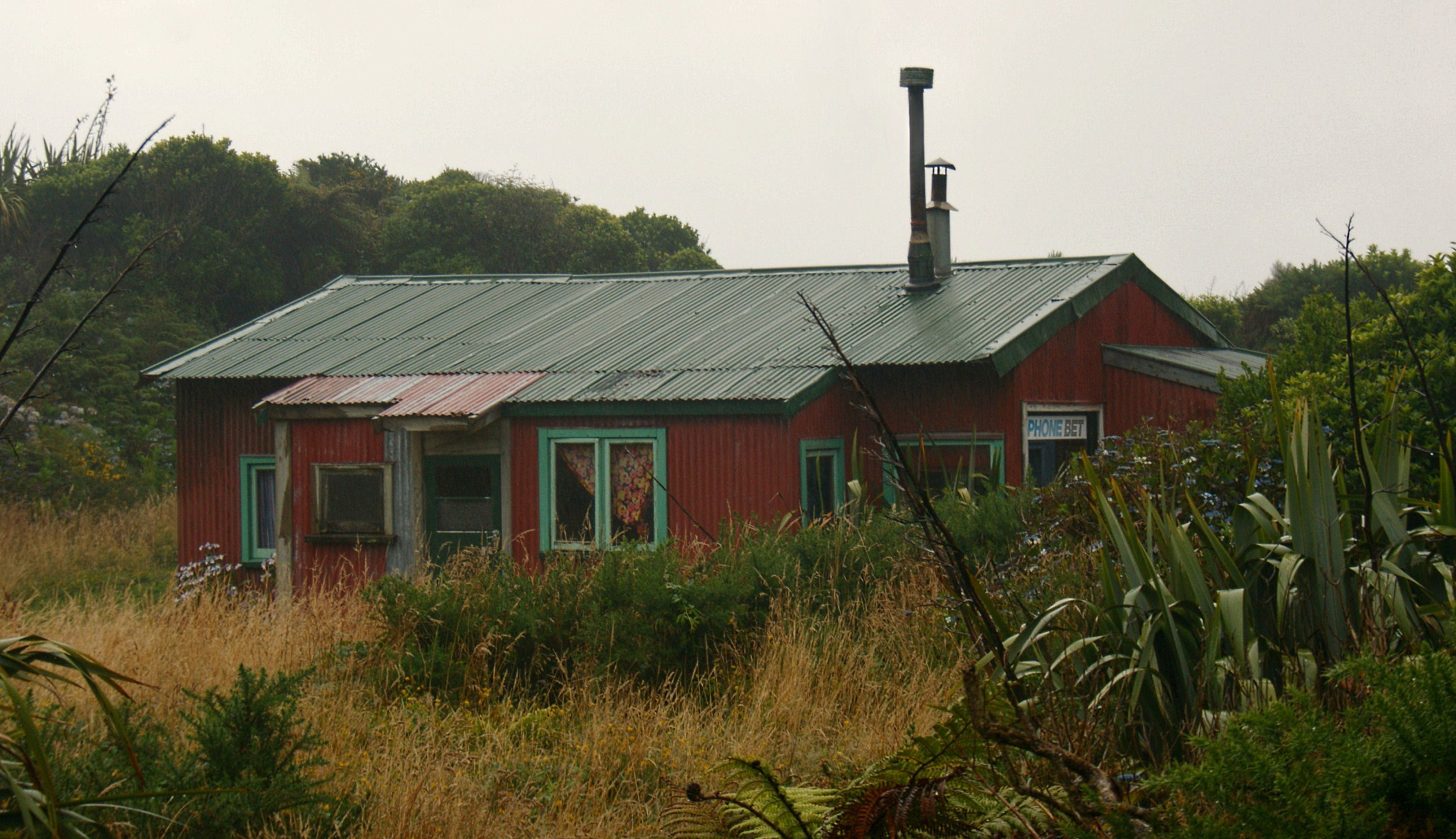 Coastal cottage at Charleston, West Coast region, New Zealand